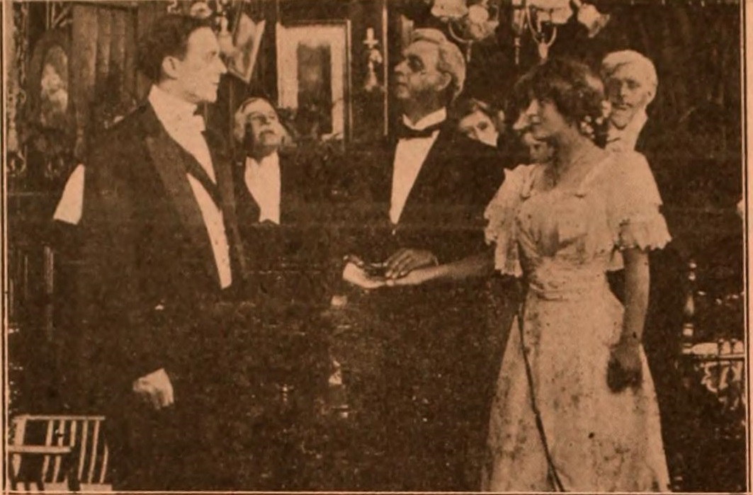 A film still used to promote Young Lord Stanley, from the Thanhouser Company. Released in 1910.